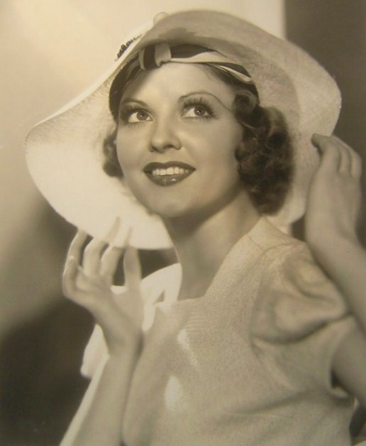 Publicity photo of Lilian Bond for When Strangers Marry (Alternate Title: Fever [1])